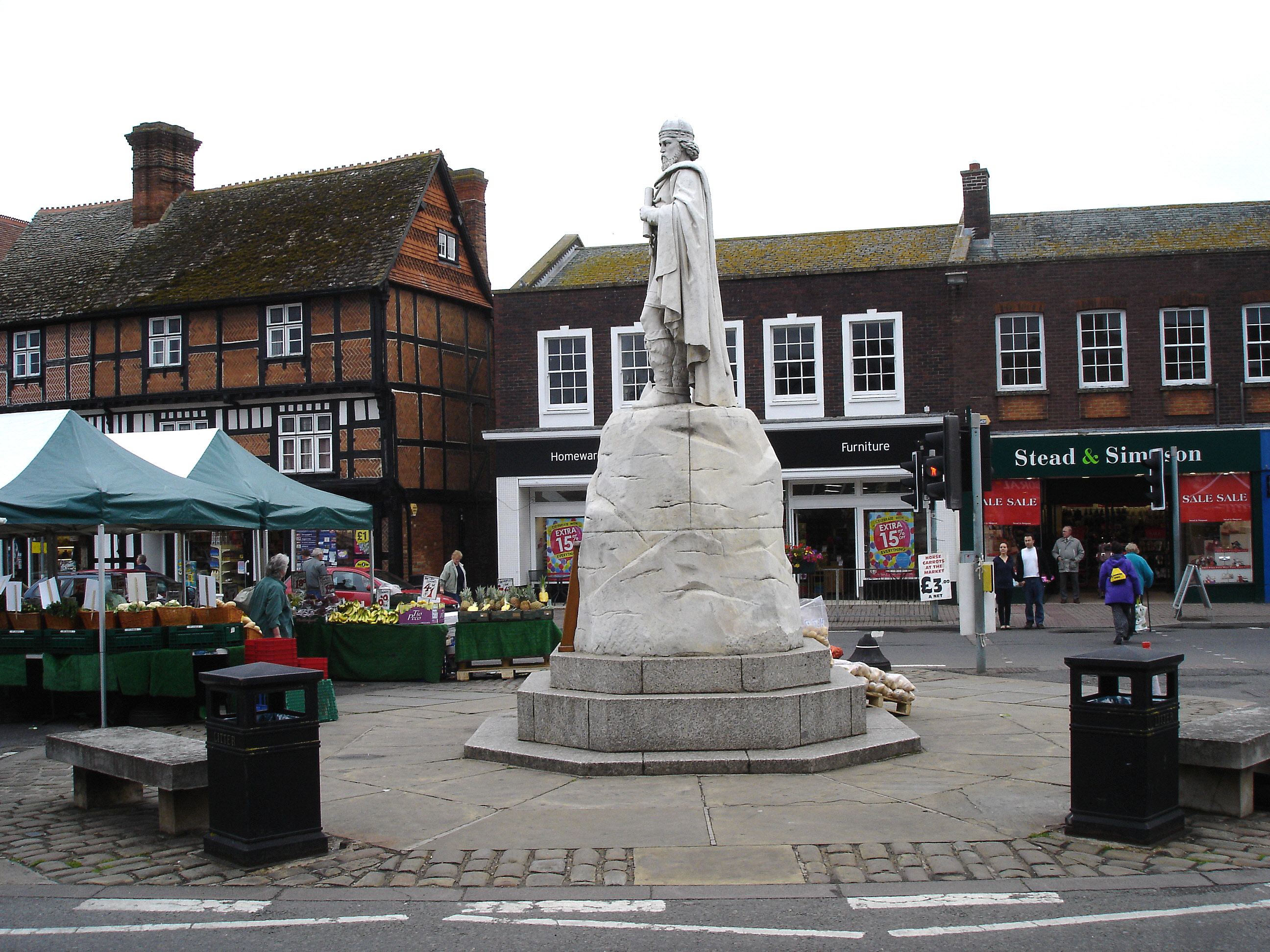 Shot of the Northern side of Wantage Market Place with the statue of King Alfred the Great